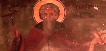 Fresco of John Iberian